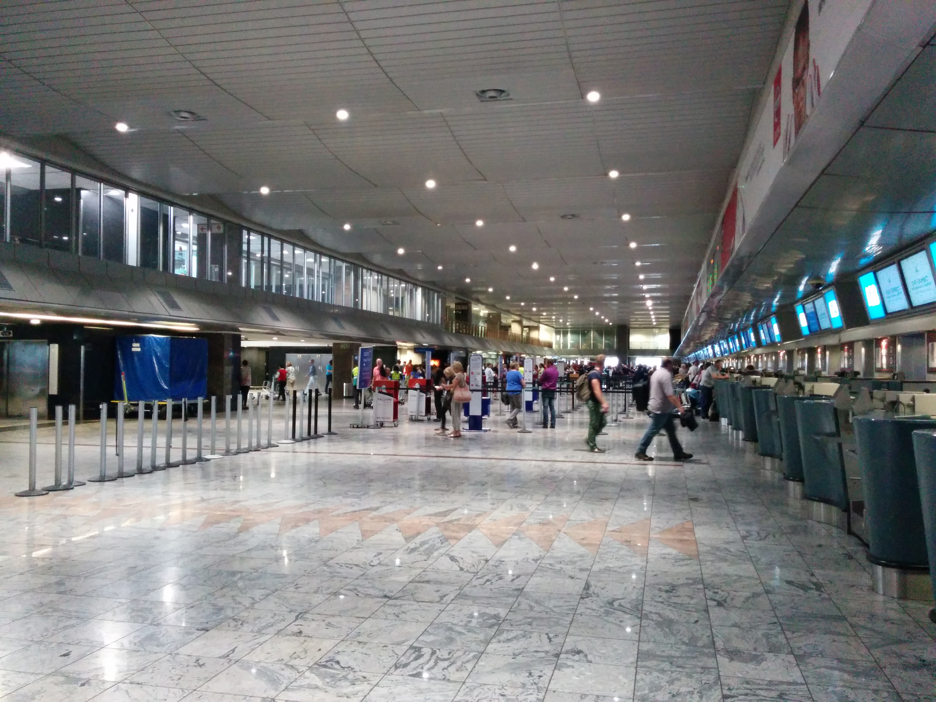 Johannesburg International Airport, South Africa